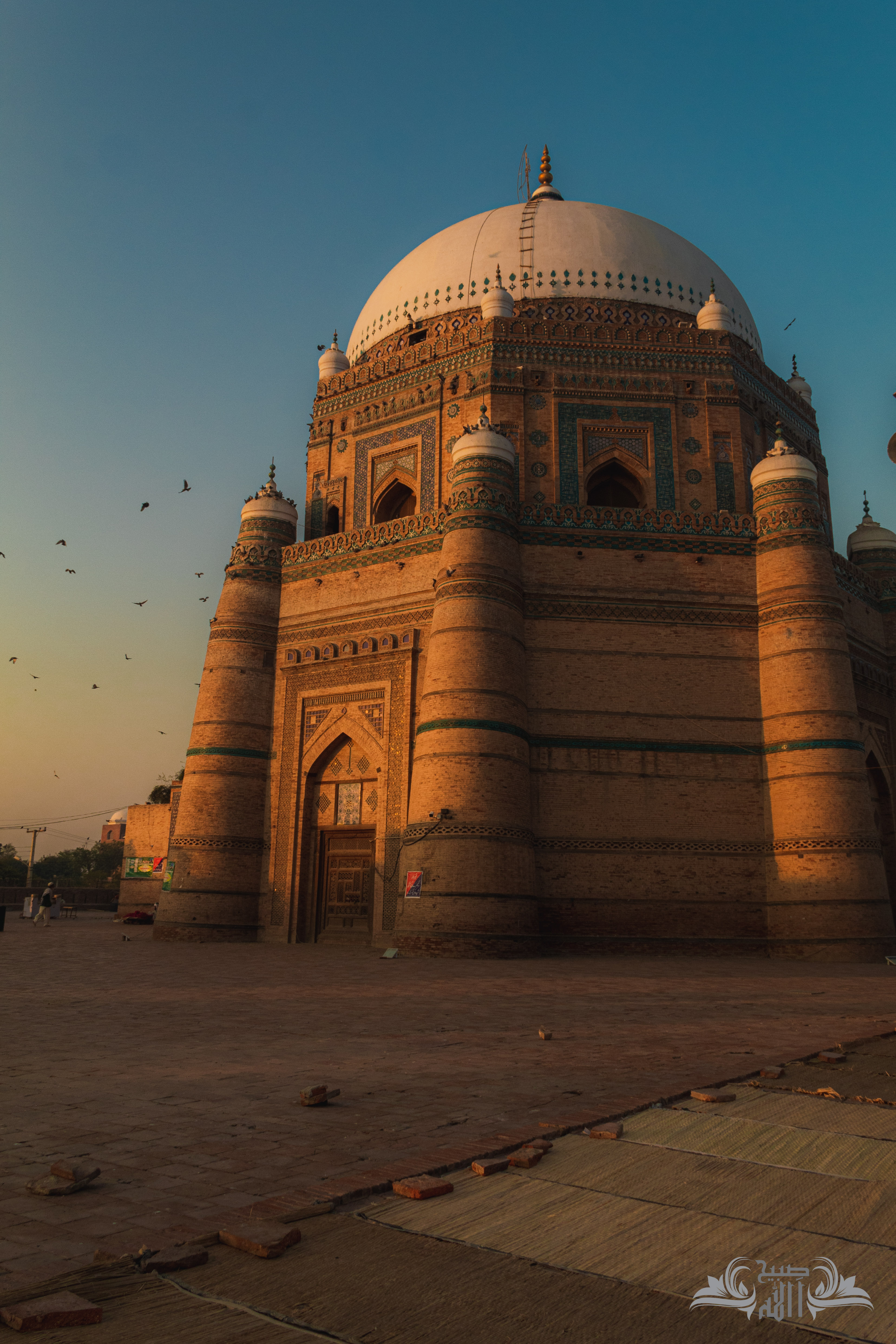 First Light kissing the front of the Tomb